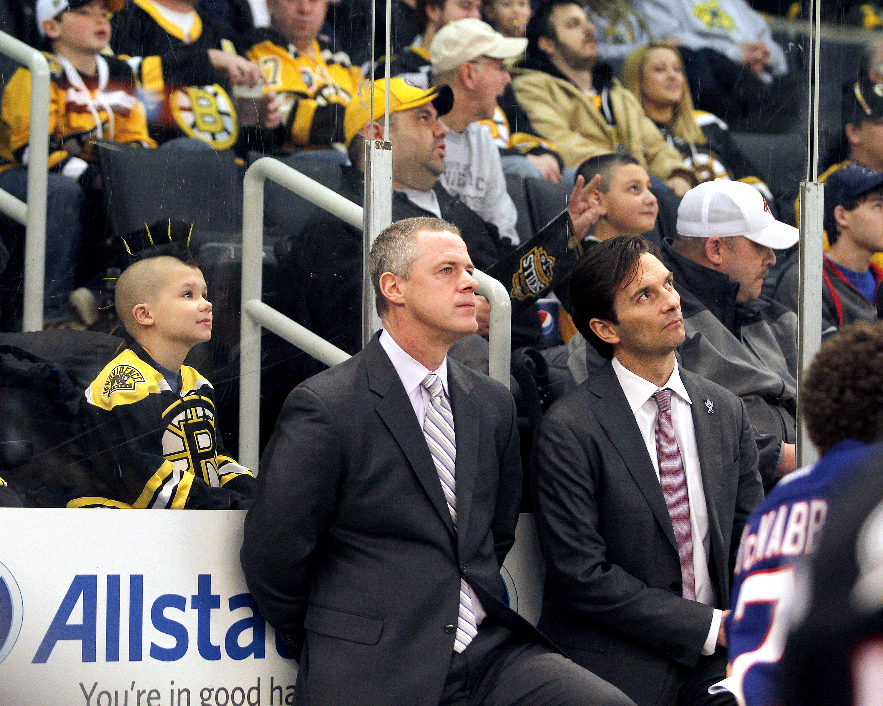 Coaches West: Jeff Daniels & Dallas Eakins (right), American Hockey League (AHL), 2013 All-Star Skills Competition. Taken on January 27, 2013.